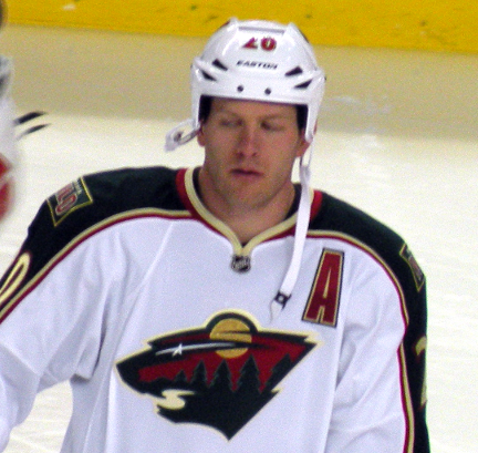 Minnesota Wild defenceman Ryan Suter prior to a National Hockey League game against the Calgary Flames.